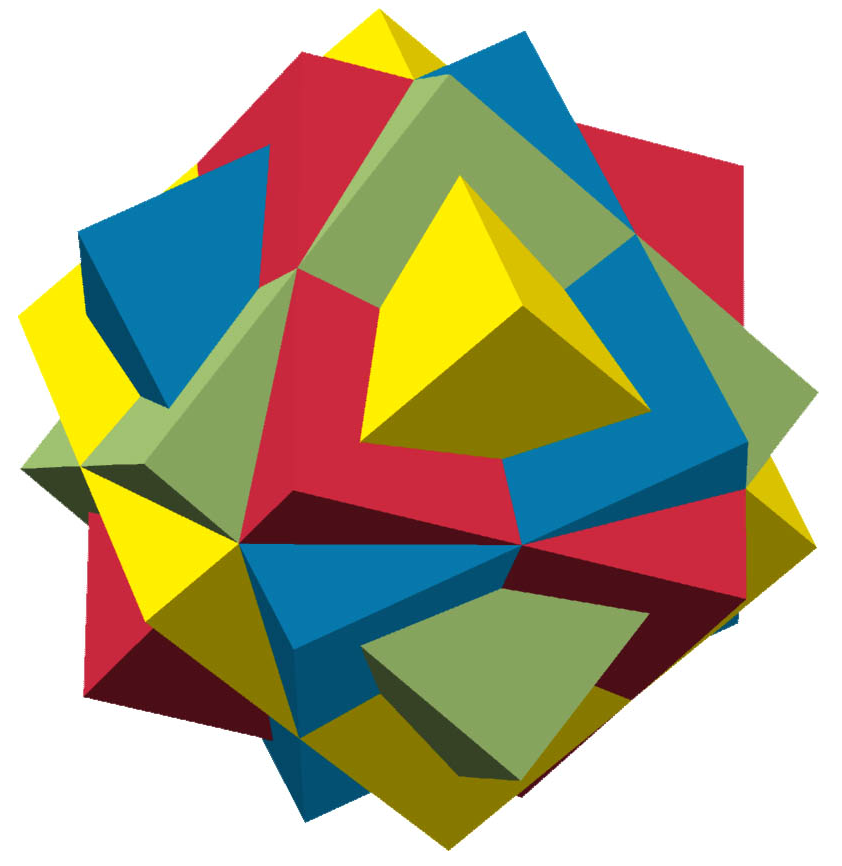 A polyhedron composed of four identical intertwined cubes.